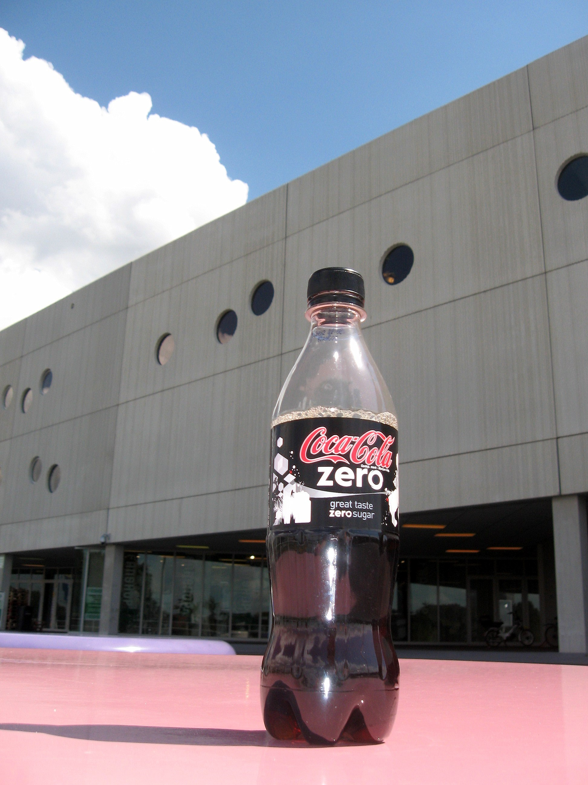 A bottle of Coca-Cola Zero